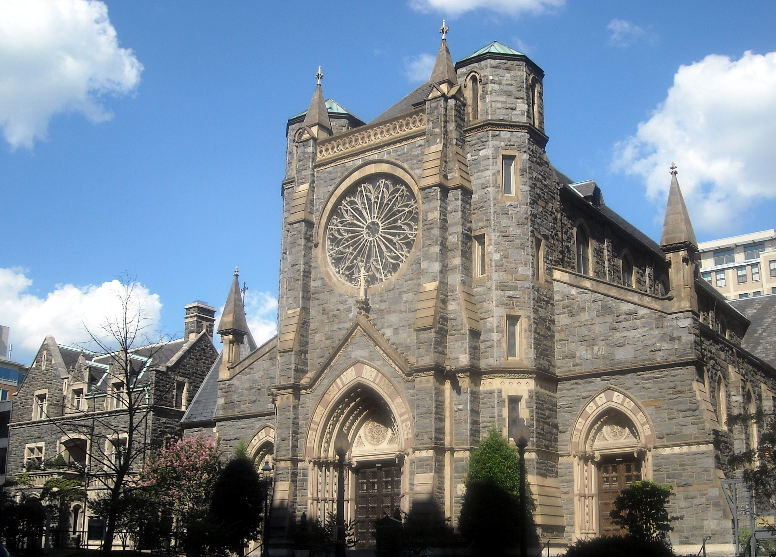 St. Patrick's Catholic Church located at 619 10th Street, N.W., in downtown Washington, D.C.